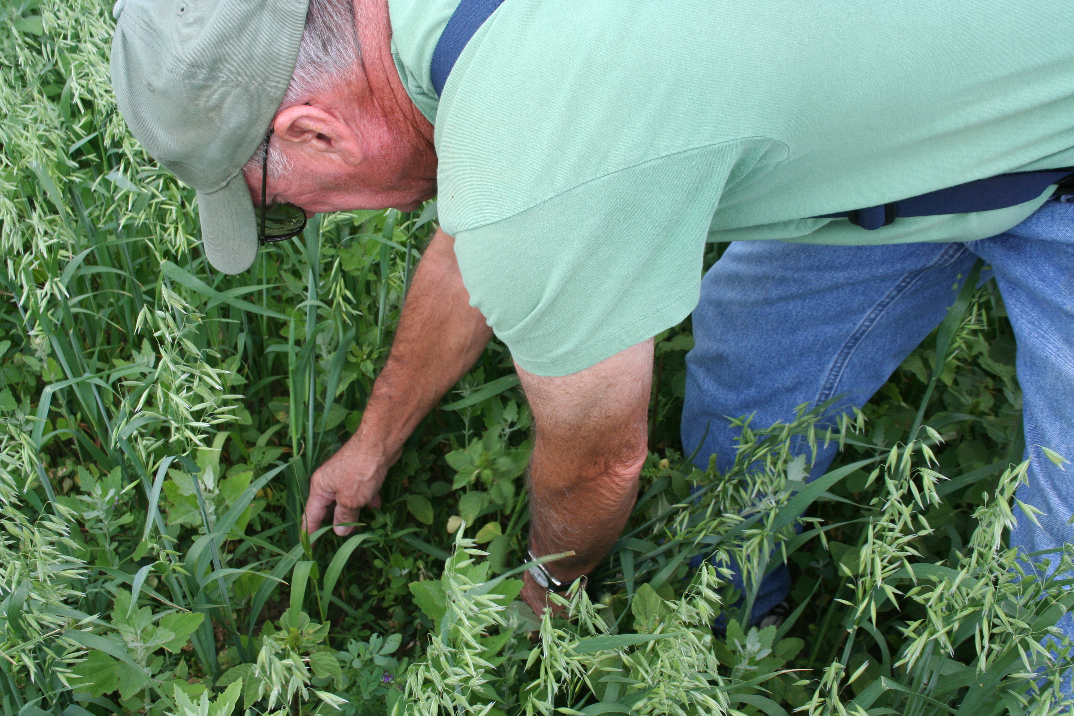 This is an example of a "nurse crop", a growing method that has two crops growing in the same spot as a bridge between two different crops from year to year. This is alfalfa (Medicago sativa) and oats (Avena sativa); some "weeds" are also visible. Oats are acting as the nurse. Last year this was soybean. Fort Royal Farm, Carey, Ohio, USA.